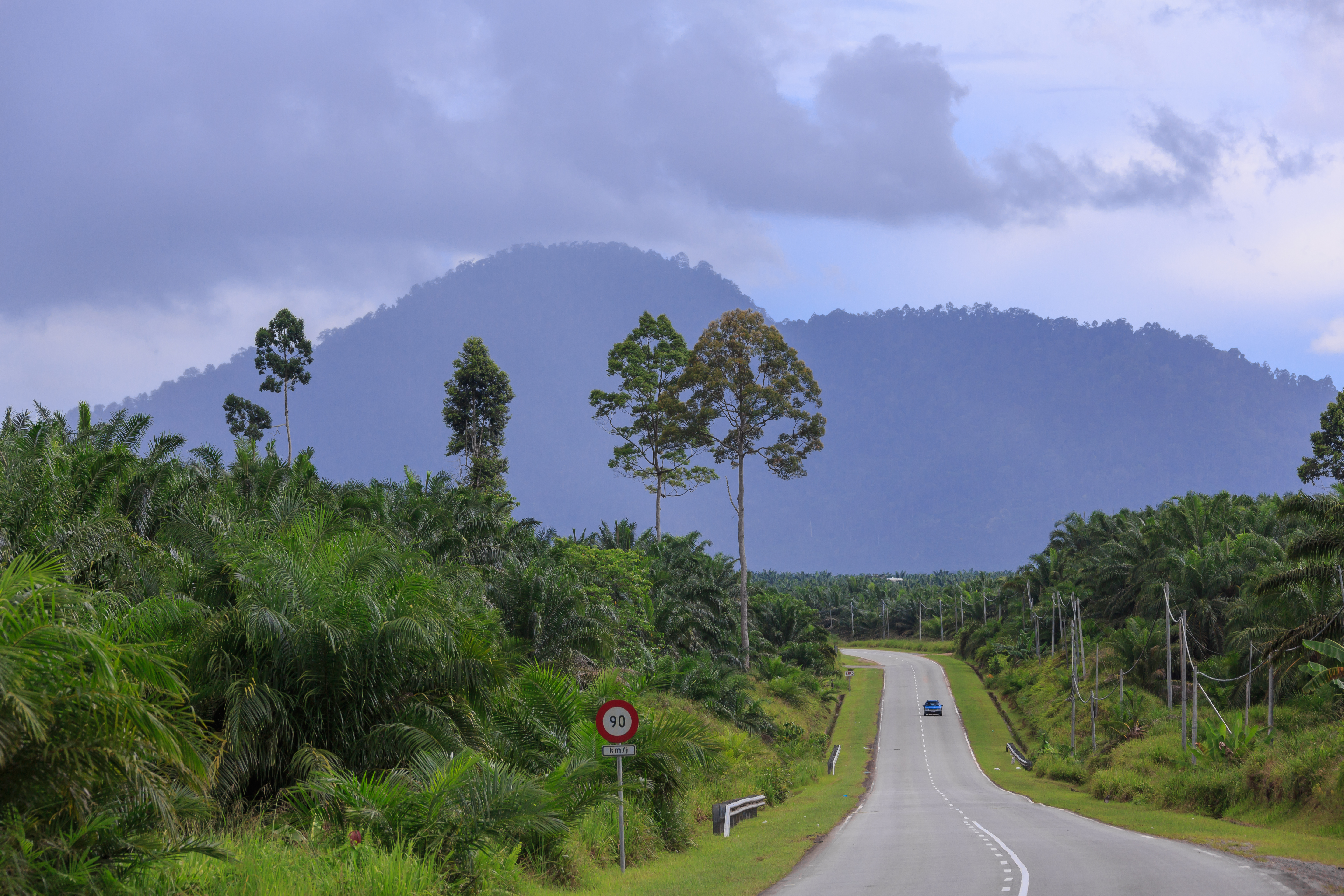 District Semporna, Sabah: Semporna-Kunak Road with speed limit road sign, short time before a torrential rain is pouring down